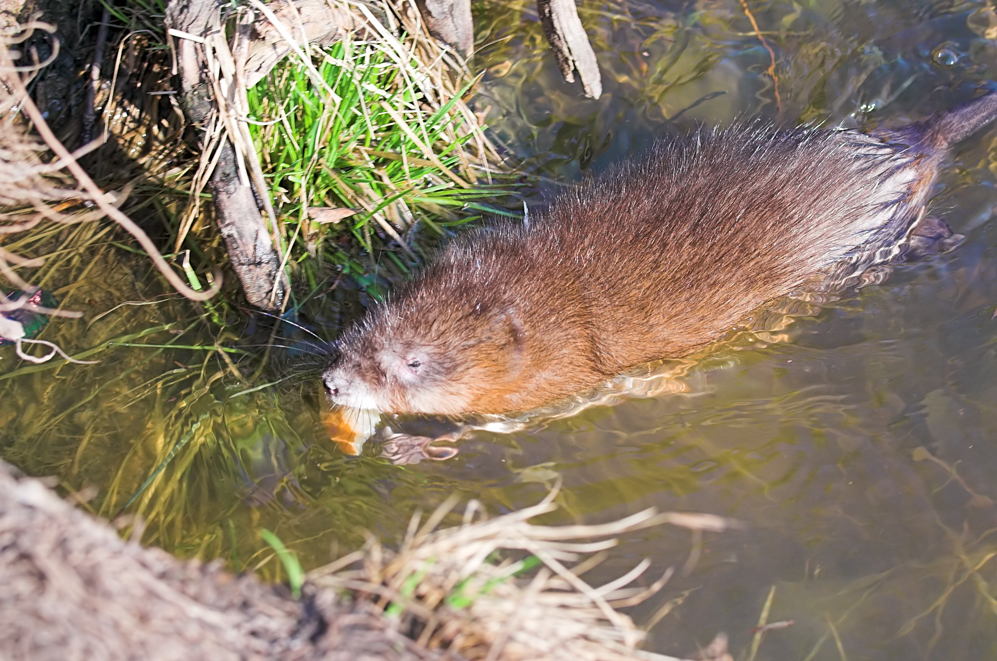 Terletsky park in Moscow, muskrat.